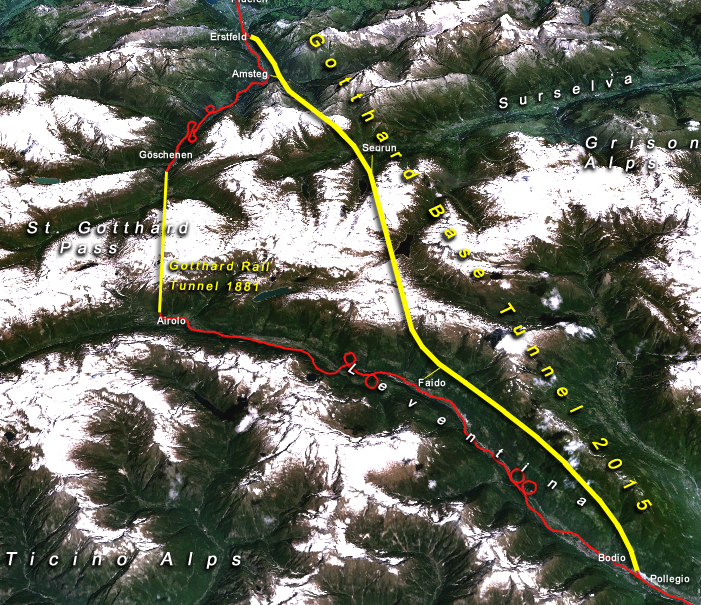 Situation of the northern part of the Gotthard axis as part of the New Railway Link through the Alps NRLA / Alptransit project in Switzerland with Gotthard and Zimmerberg base tunnels (yellow: major tunnels, red: existing main tracks, numbers: year of completion)